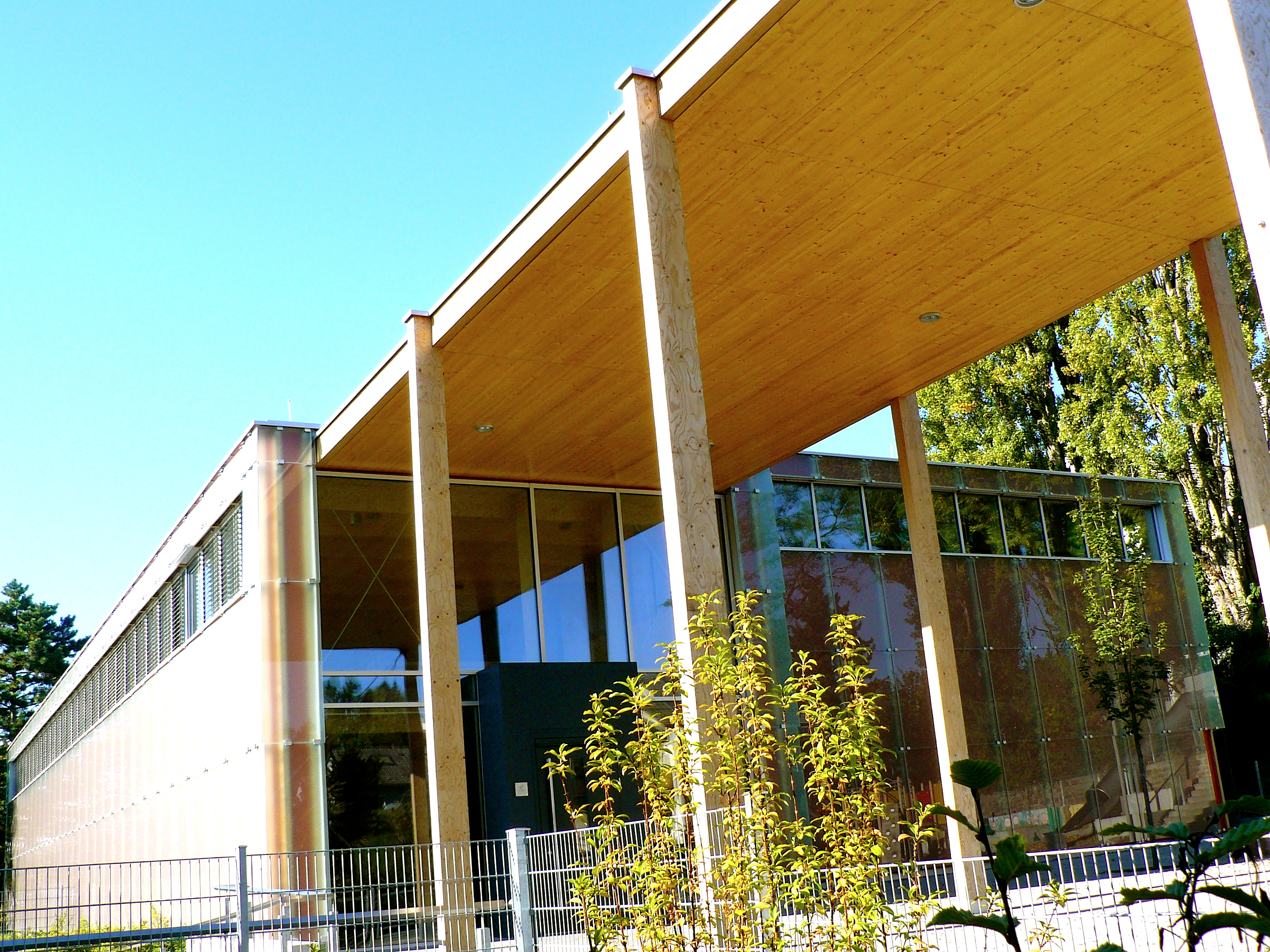 Gym of Zentgrafenschule in Frankfurt-Seckbach, Hesse, Germany (built in 2009/10)